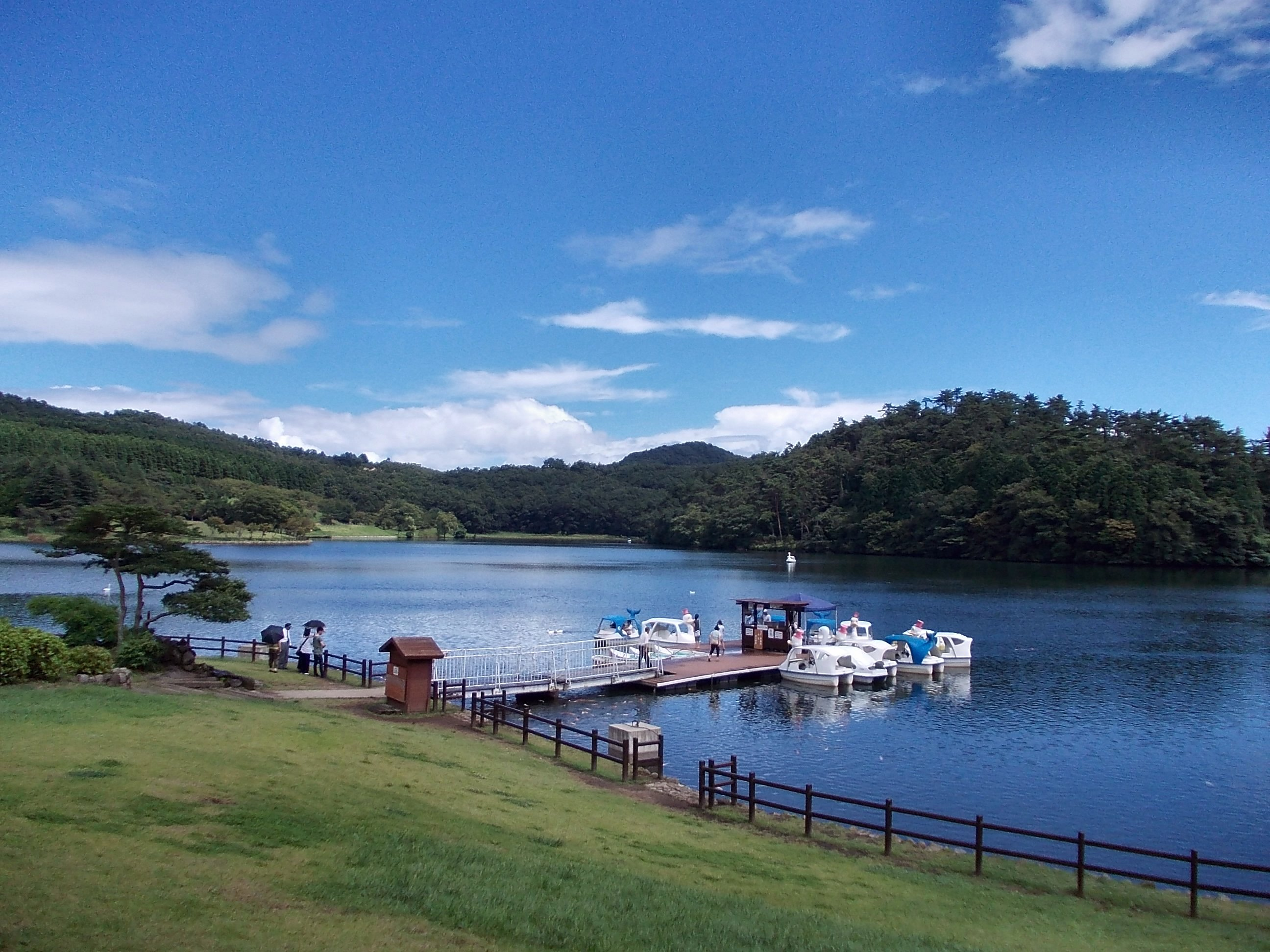 Lake Shidaka, Beppu, Oita, Japan